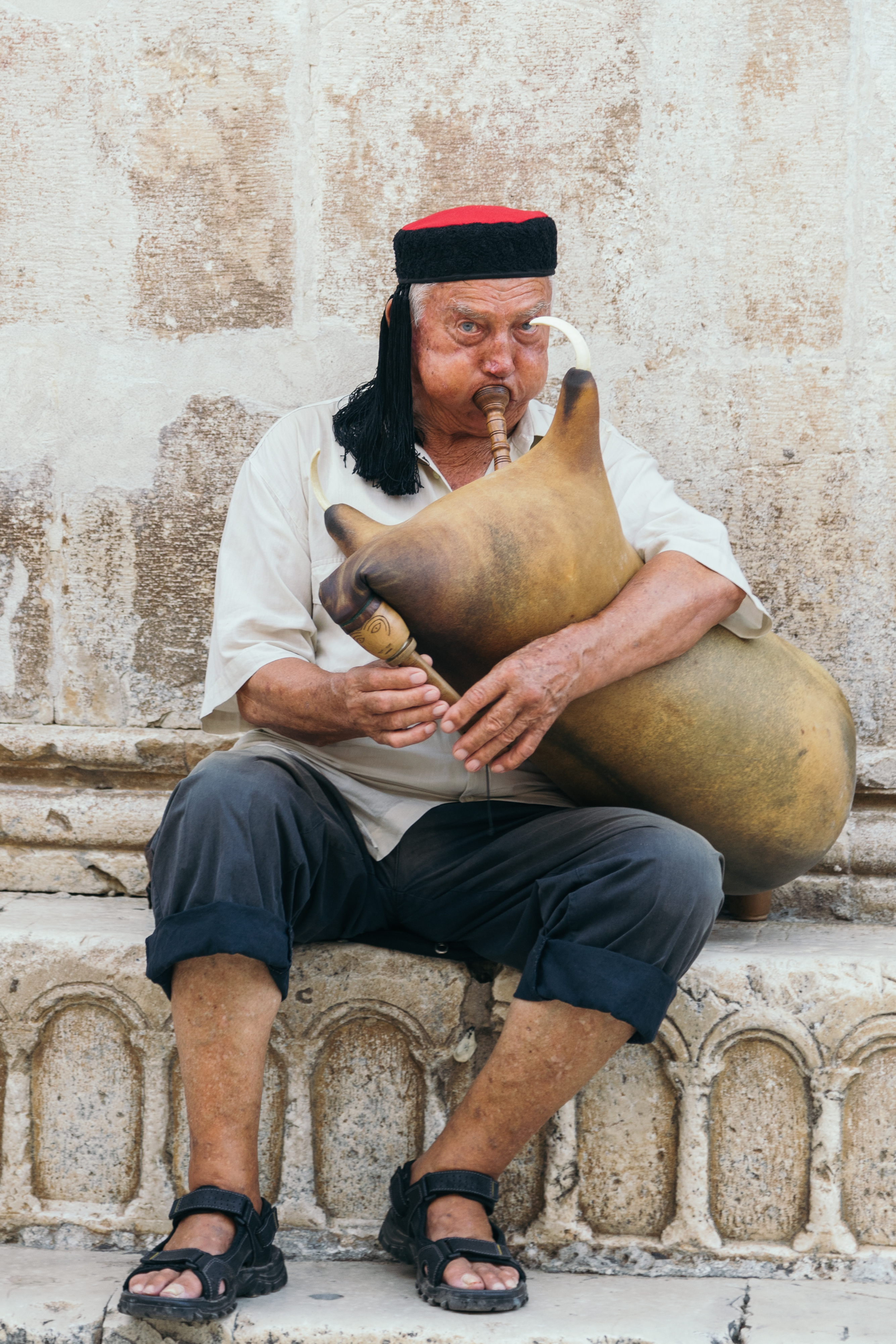 Gaida player in Trogir, Croatia, 2017